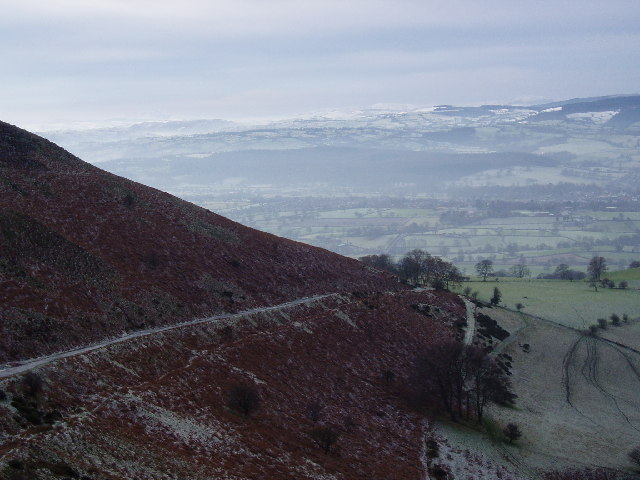 The road along Moel Fenlli. The road up from Llanbedr to Bwlch Pen Barras can be seen clearly because it is picked out by the snow. The Vale of Clwyd can be seen beyond Moel Fenlli.